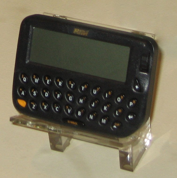 Original Blackberry.